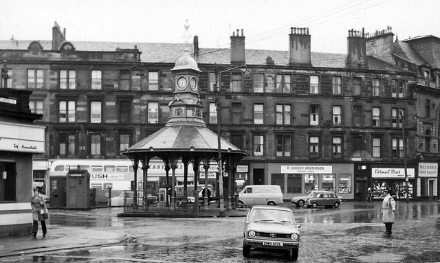 Bridgeton Cross, at London Road and Dalmarnock Road; Station entrance to left. A typical street scene at one of Central Glasgoww's principal intersections, in the pouring rain. Just off to the left is the entrance to the ex-Caledonian Station, which was the junction on the Central Low Level Lines (now Argyle Lines) of the line from Airdrie and Coatbridge via Carmyle with that from Rutherglen, going west via Central Low Level to Balloch and Possil. The whole system was closed on 5/10/64, but was revived again (electrified) on 5/11/79!